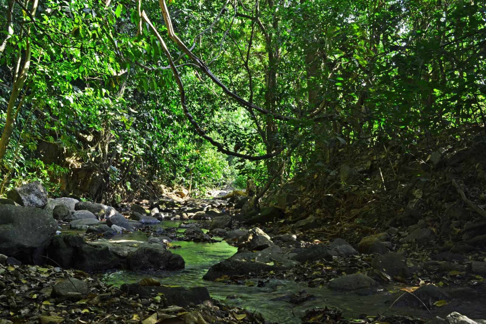 A stream in dhoni forest, Palakkad, Kerala, India.